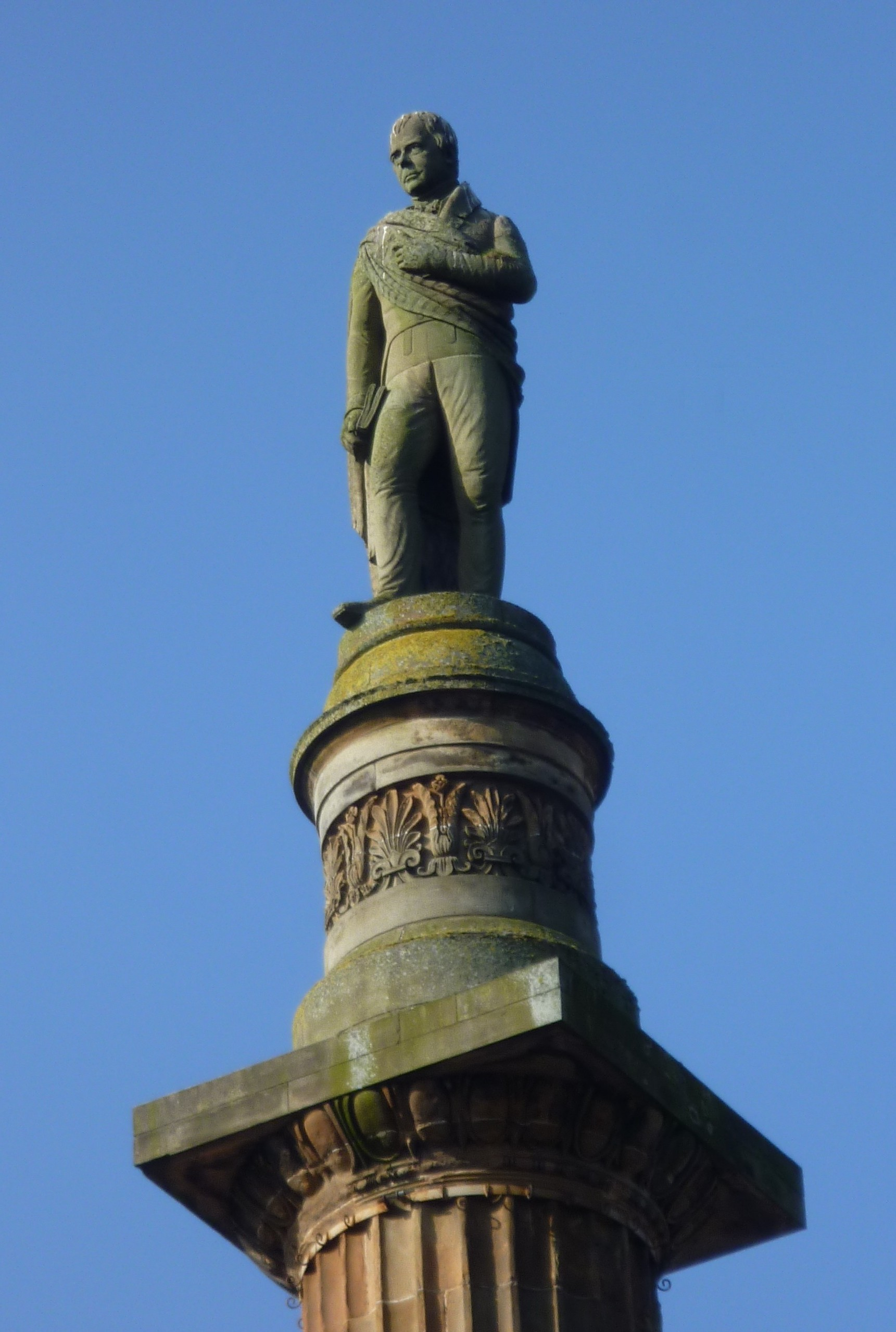 The statue byJames Greenshields and executed by Handyside Ritchie tops a column designed by David Rhind (1838)